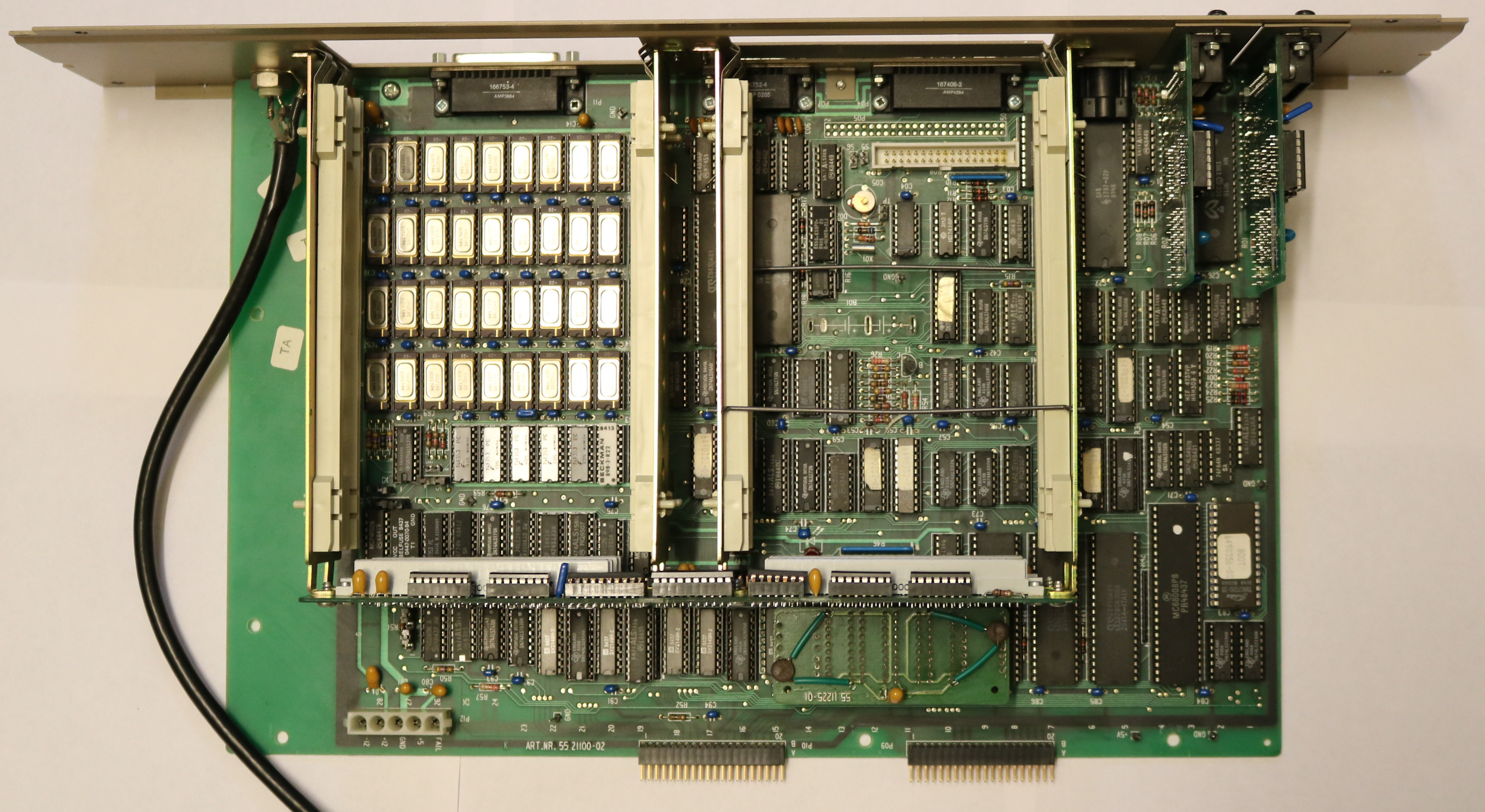 This is the main CPU PCB for the Luxor ABC 1600 computer